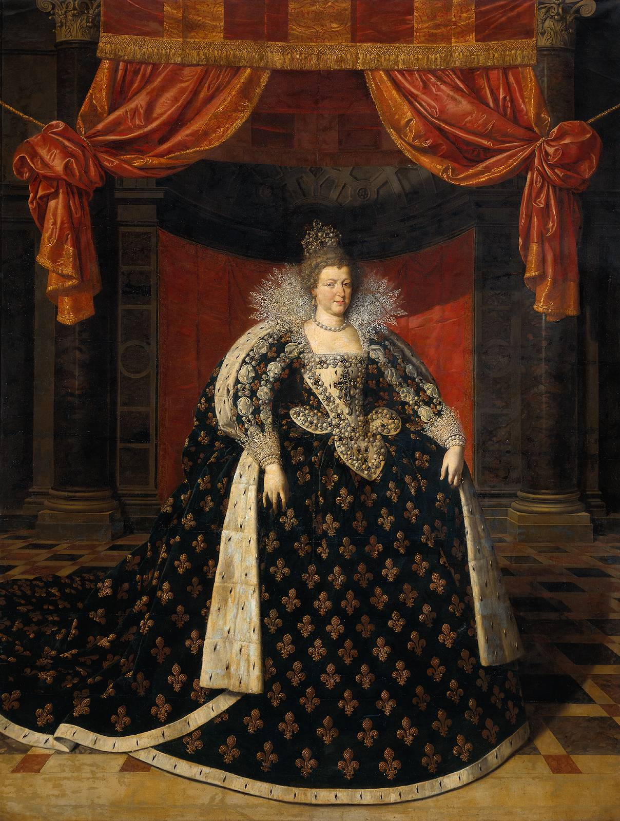 Portrait of Maria de' Medici in full regalia. She was the wife of Henry IV of France. Copy of the version in the Louvre, Paris. (see File:Frans Pourbus (II) 007.jpg).